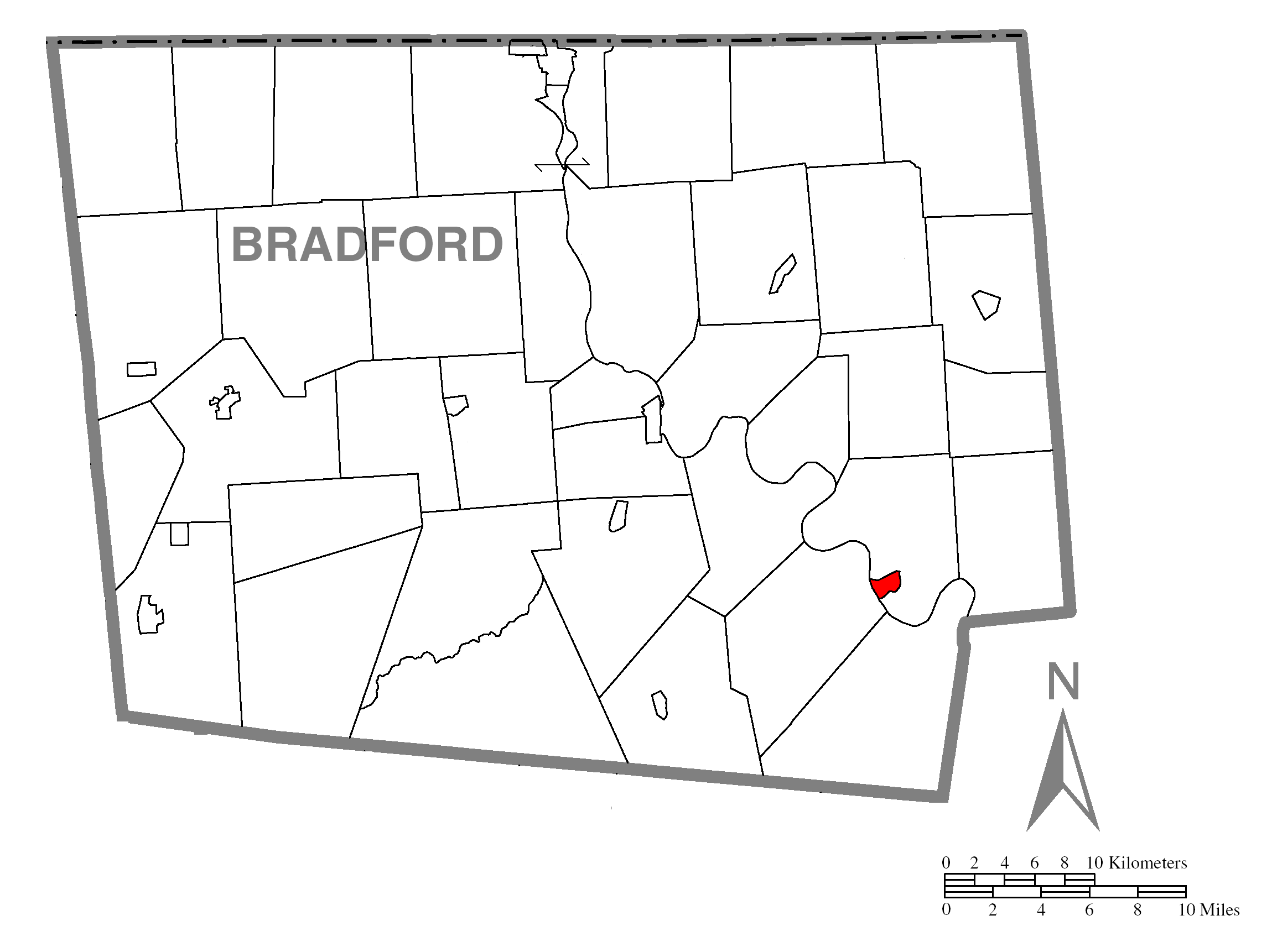 A map of Bradford County showing Wyalusing, Pennsylvania (alternate) highlighted on the map.